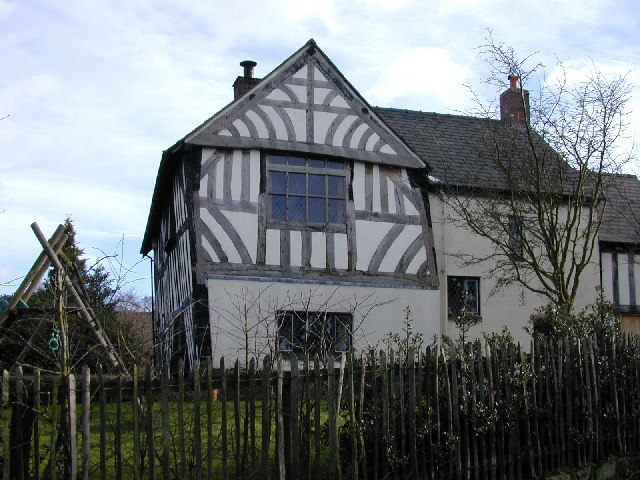 Chantry House, Bunbury, built 1527.